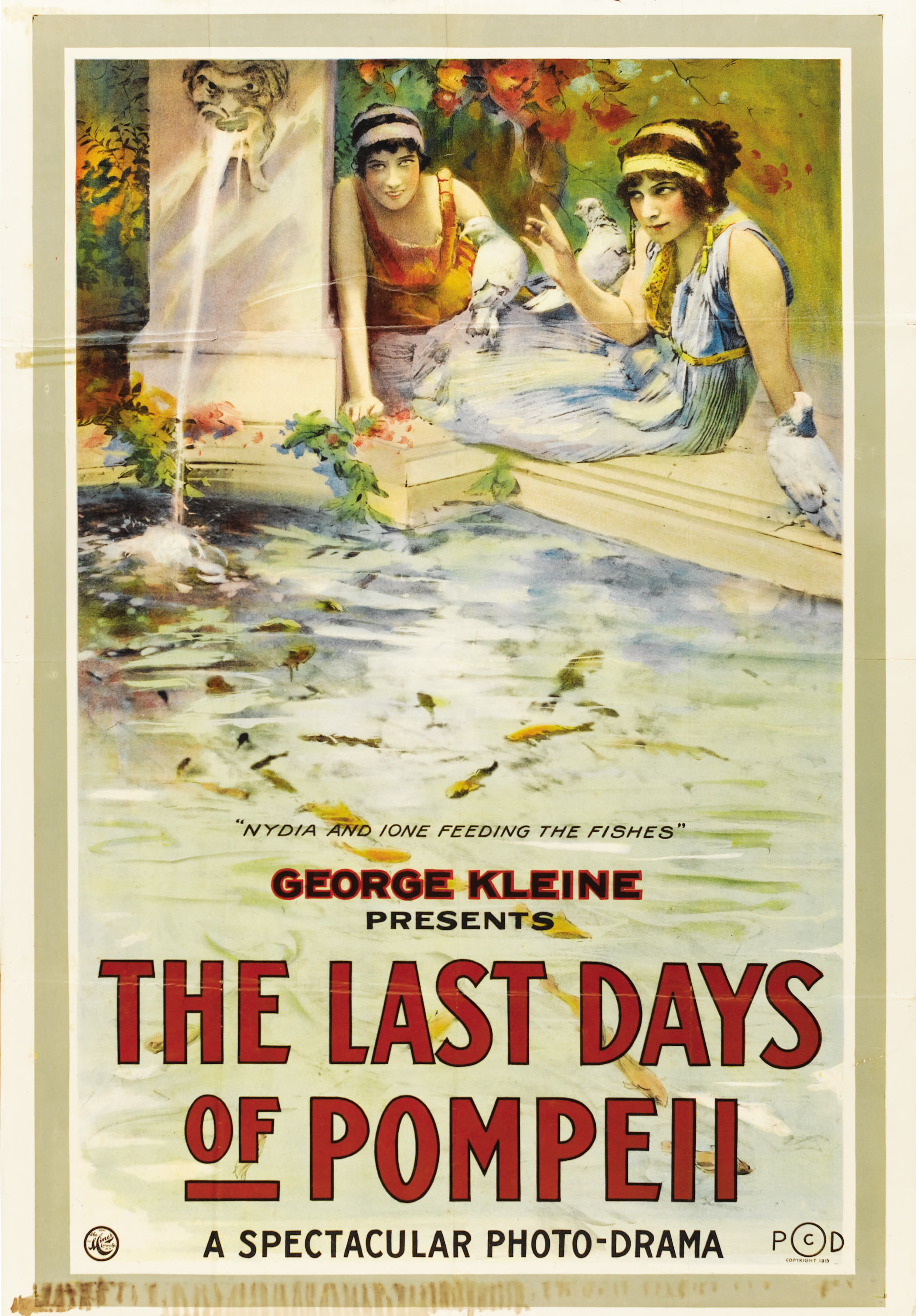 Poster for the U.S. theatrical release of the Italian film The Last Days of Pompeii (Ultimi giorni di Pompei) (1913). Poster consists of painting and does not use any stills from the film.